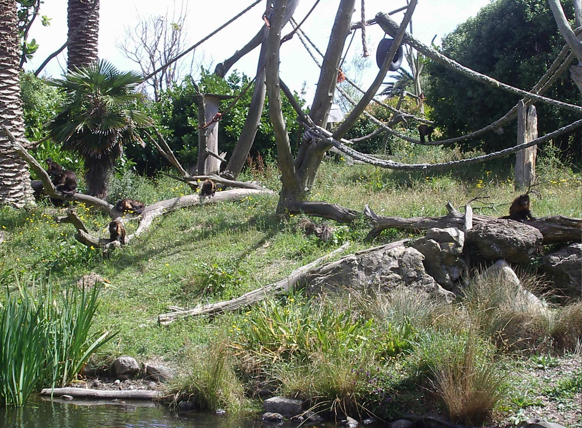 Capuchin Monkeys (Cebus) on Wellington Zoo's Monkey Island. Wellington, New Zealand.